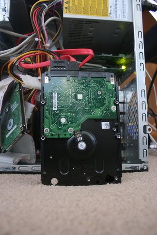 Seagate 1TB Internal HDD